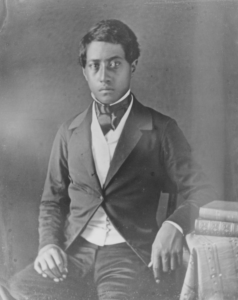 The young Prince William Charles Lunalilo around the age of fourteen. From a daguerreotype by an unknown photographer. Original in possession of William Bishop Taylor. Copy made by R. J. Baker and presented by W. B. Taylor to Hawaii State Archives on September 1945.